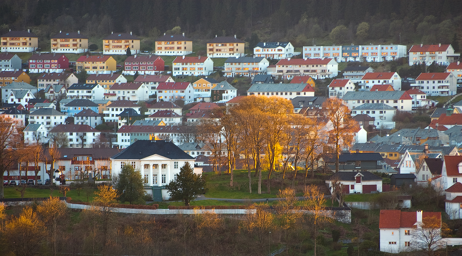 Kronstad Hovedgård viewed from Fjellveien in Bergen, Norway.